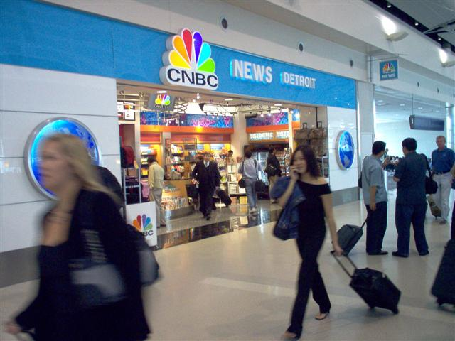 CNBC News store, Wayne County Metro Detroit Airport (DTW)Pistons' Port